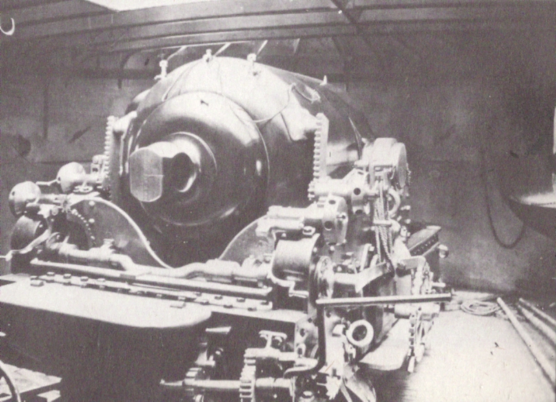 Photograph of 12-inch (305 mm) 25-ton muzzle-loading rifle aboard the British ironclad ram HMS Hotspur.